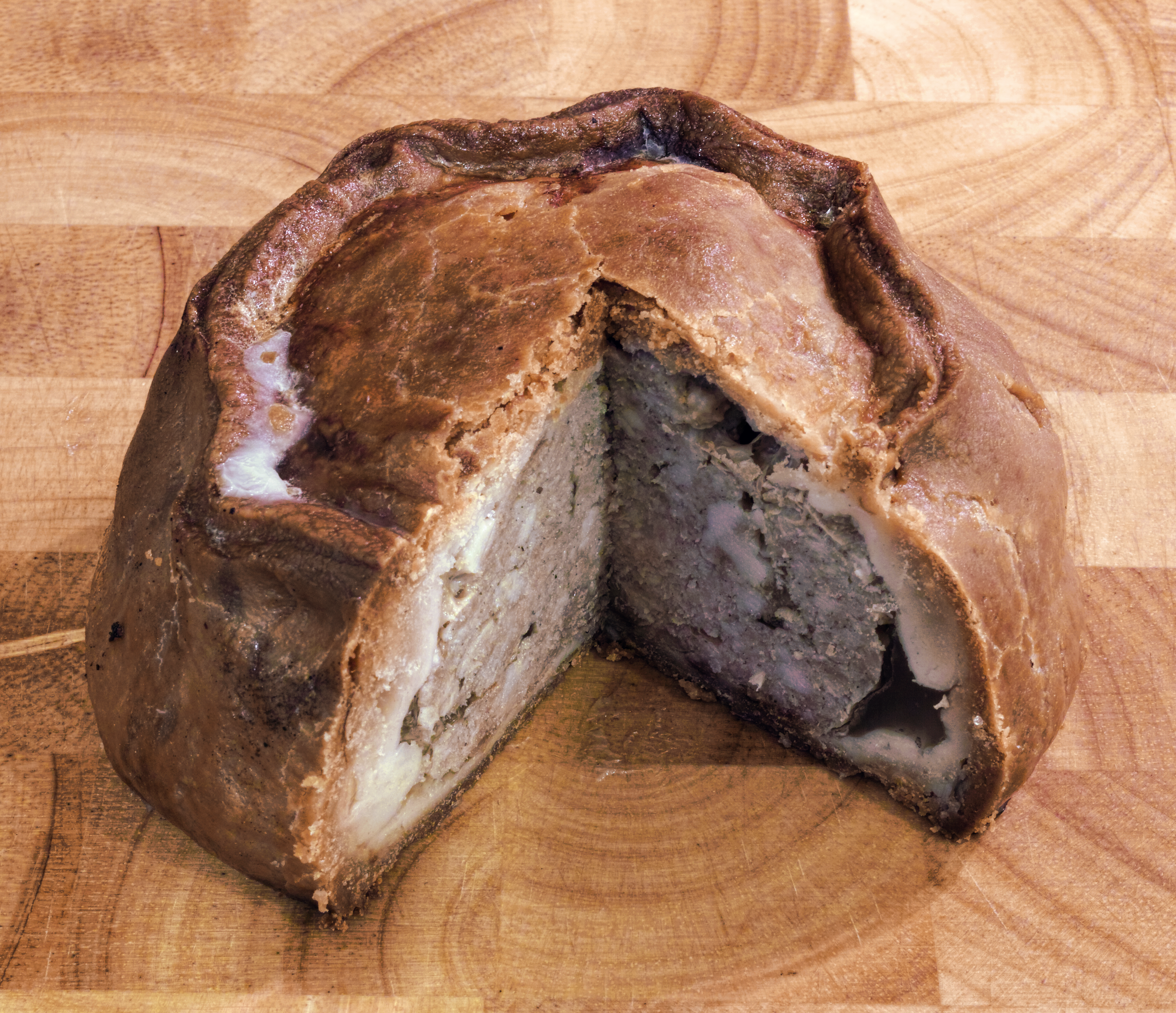 A Melton Mowbray pork pie, made by Dickinson & Morris, with a slice removed.